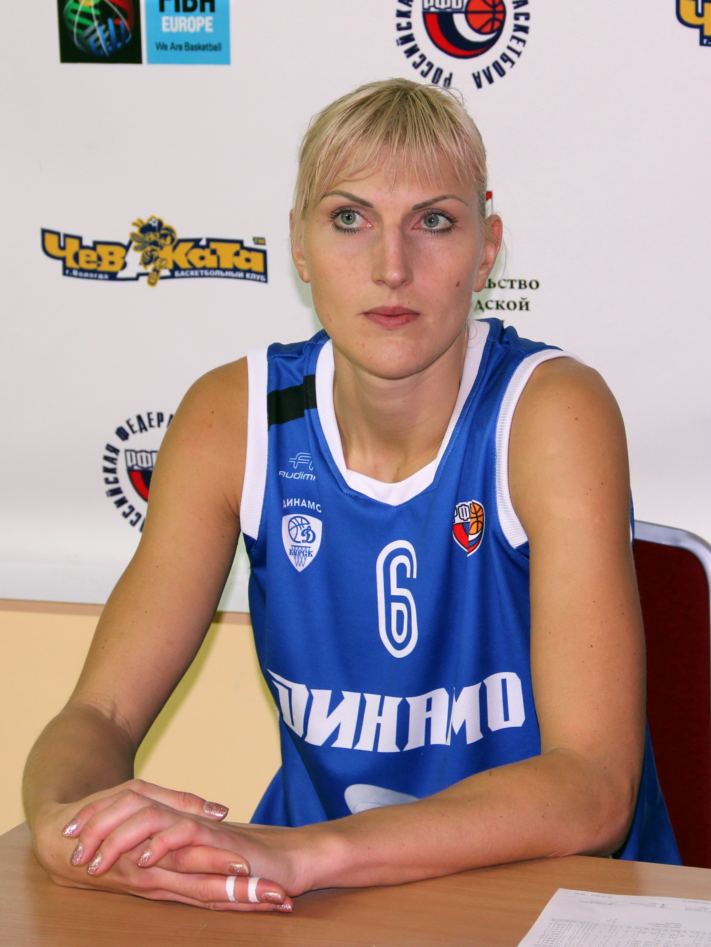 Russia, Vologda, Natalia Vodopyanova after game «Vologda-Chevakata» vs «Dinamo» (Kursk)